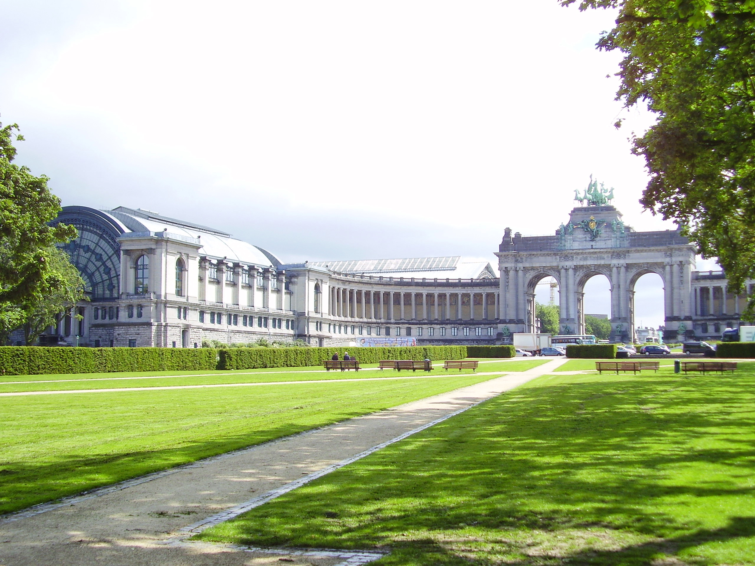 Parc du Cinquantenaire, Bruxelles 30/05/2006